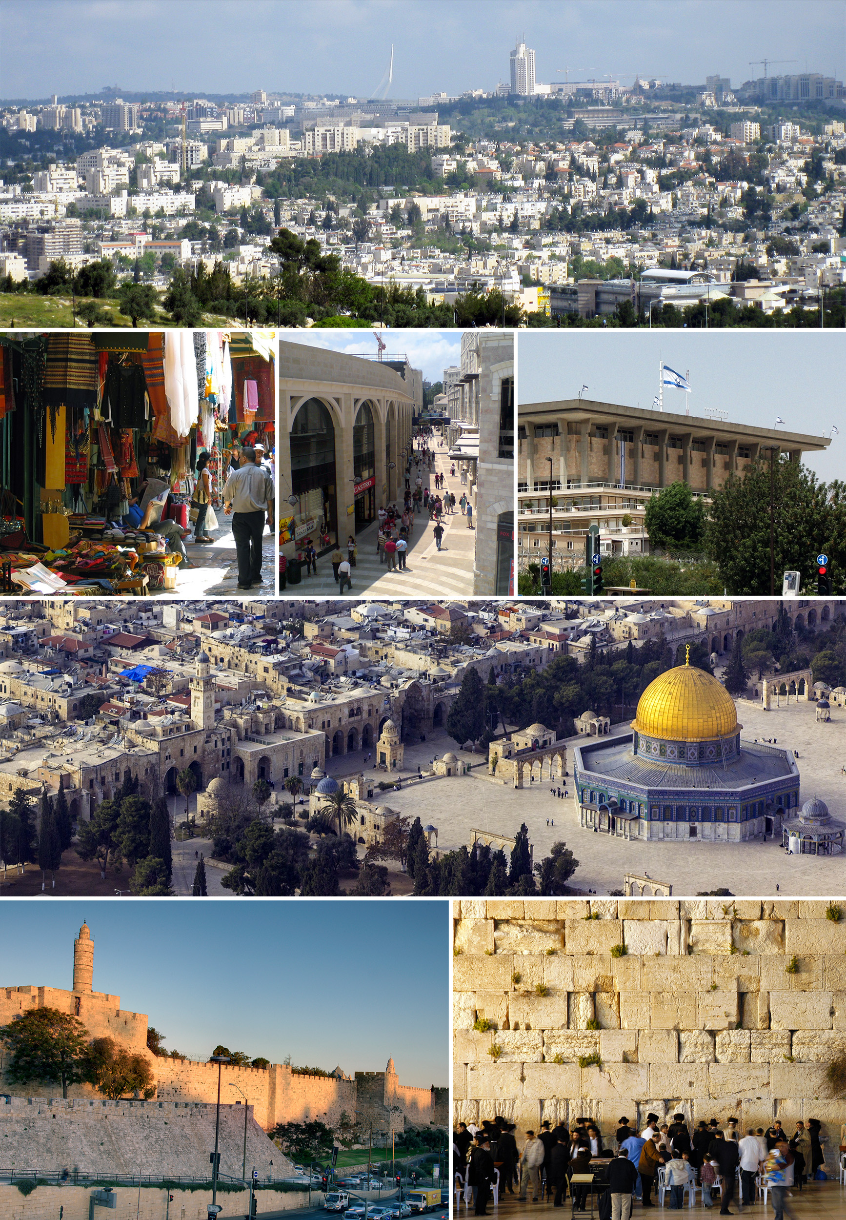 A collage of Jerusalem